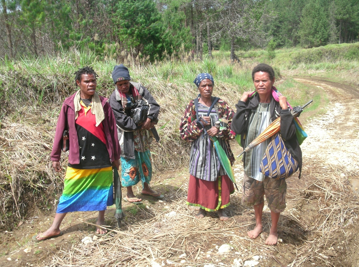 Representatives of the weaker sex from the village of Tukusunda are sent towards the regional center. Photo from the book «Six months on the islands ... », p. 131 © 2016 Viкtor Pinchuk (ISBN 978-5-9908234-0-2)